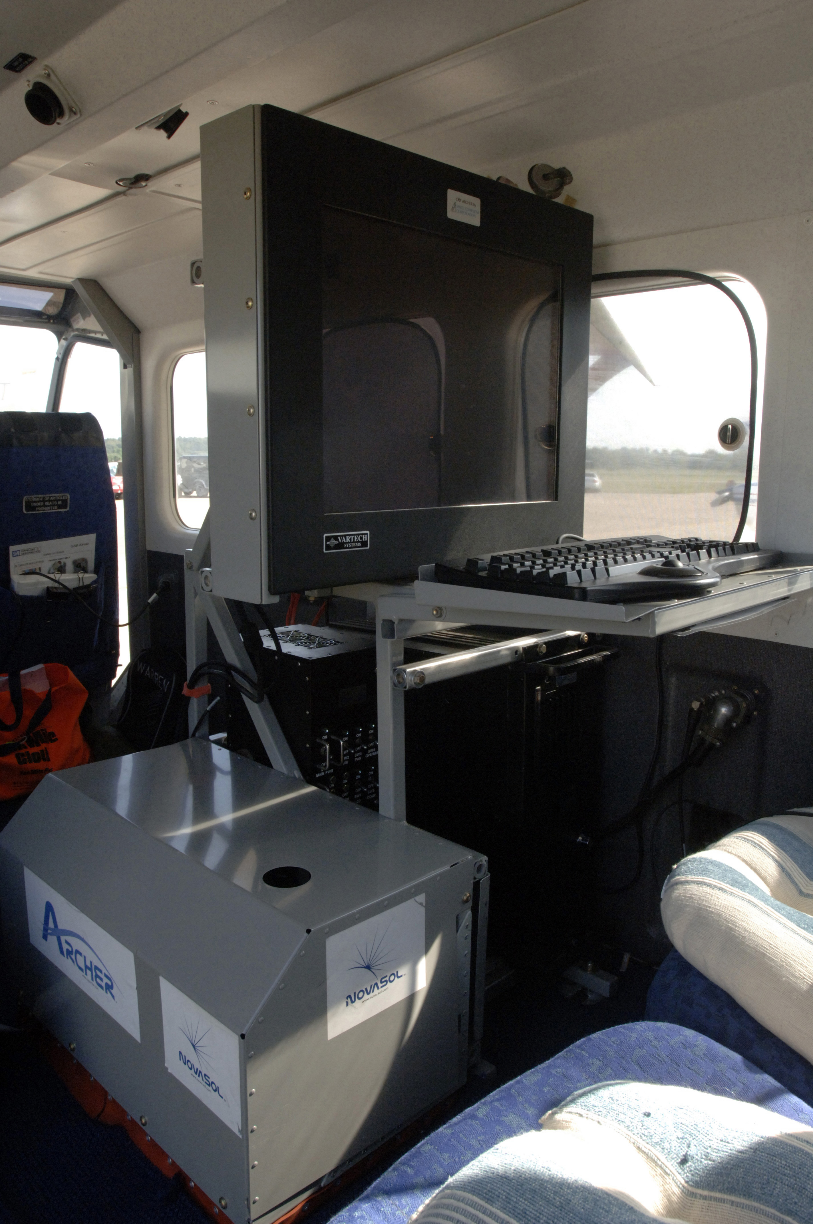 The Airborne Real-time Cueing Hyperspectral Enhanced Reconnaissance (ARCHER) system, which gives aerial reconnaissance, hyperspectral imaging capability to Civil Air Patrol planes aboard an Australian Gippsland Aeronautics GA8 Airvan aircraft, at Houston, TX, on Sept. 26, 2005.